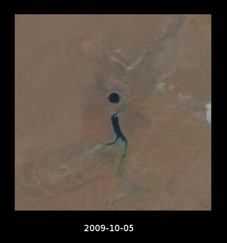 Chagan "Atomic Lake" in 2009 and 2010. Circular basin above the center of the image is the crater created by Soviet nuclear test in 1965; on the 2010 image it appears to be connected with a shallow reservoir on Shagan River, allowing water exchange.